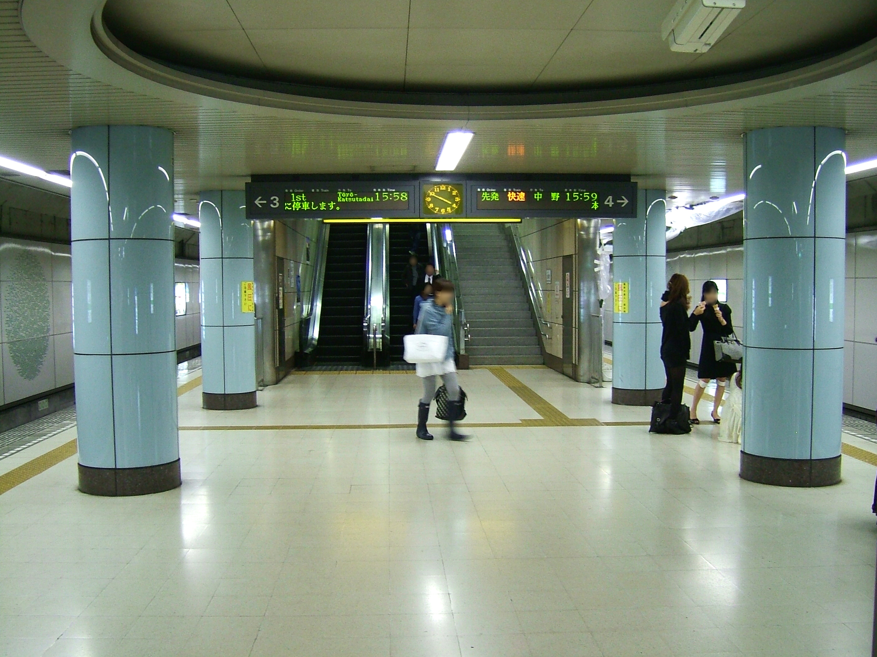 Kita-Narashino Station platform (Toyo Rapid Railway Line)